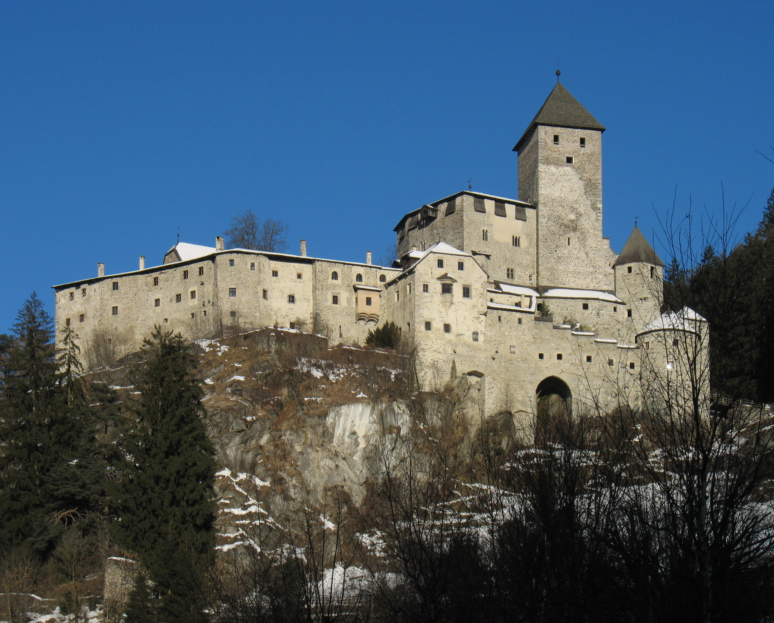 The Taufers Castle, in Sand in Taufers, Trentino-Alto Adige/Südtirol, Italy.